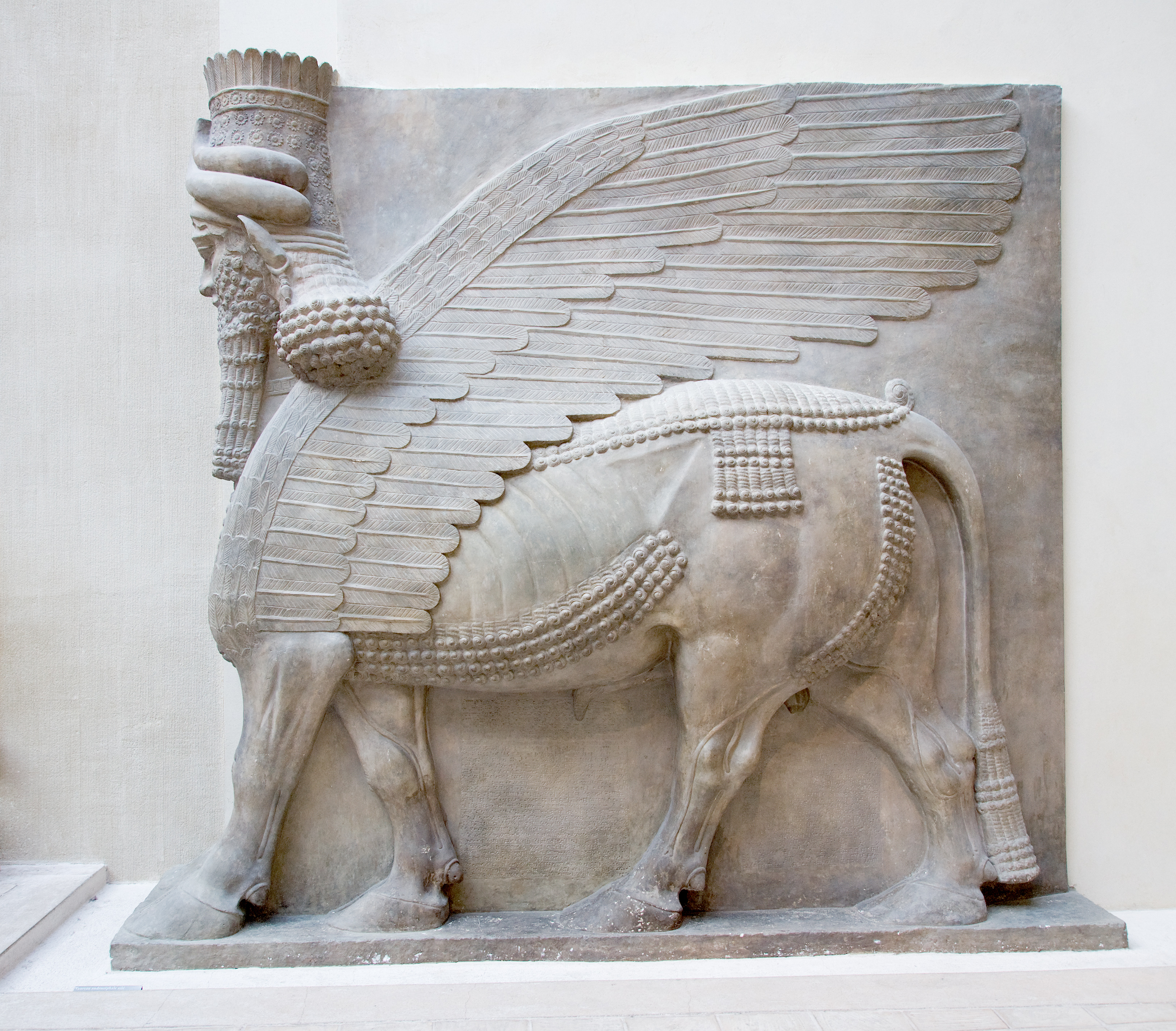 Lamassu (Human-headed winged bull) heading left. Relief from the m wall, k door, of king Sargon II's palace at Dur Sharrukin in Assyria (now Khorsabad in Iraq), ca. 713–716 BC.